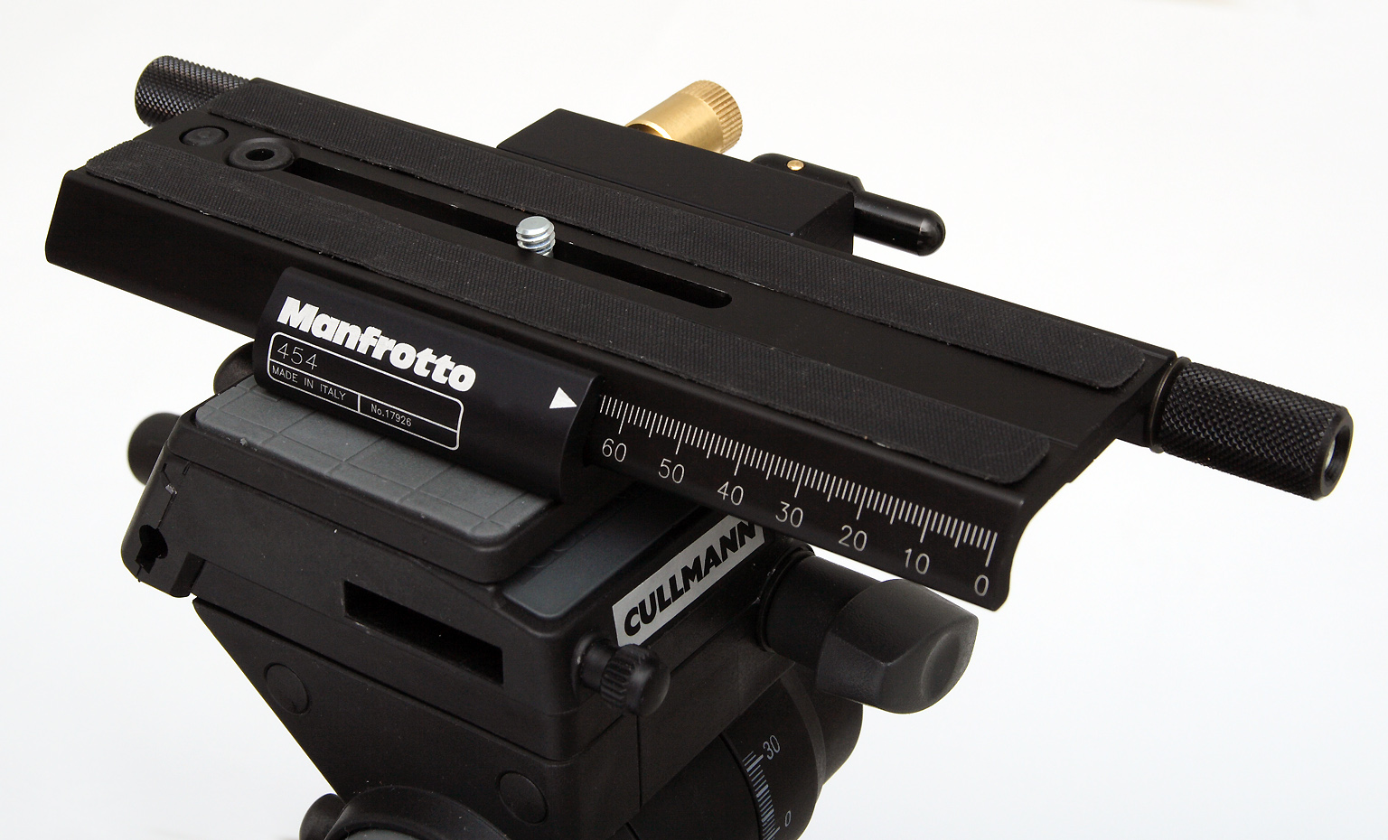 Manfrotto sliding micropositioning plate mounted on a Cullmann photographic head.